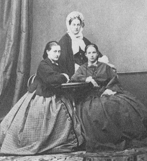 Grand Duchess Maria Nikolaievna, with her daughters Maria and Eugenia